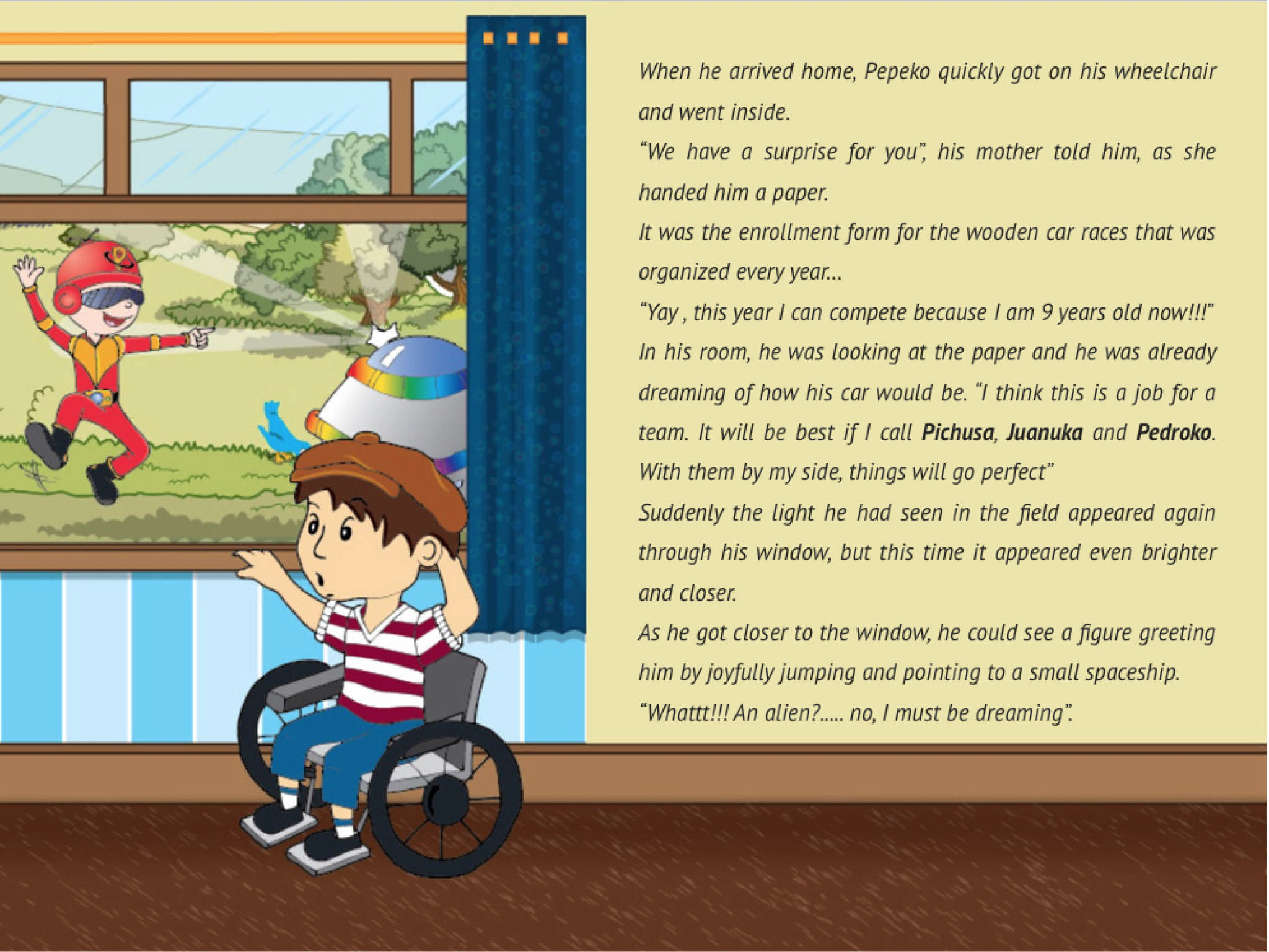 Sample page from book WHEELS